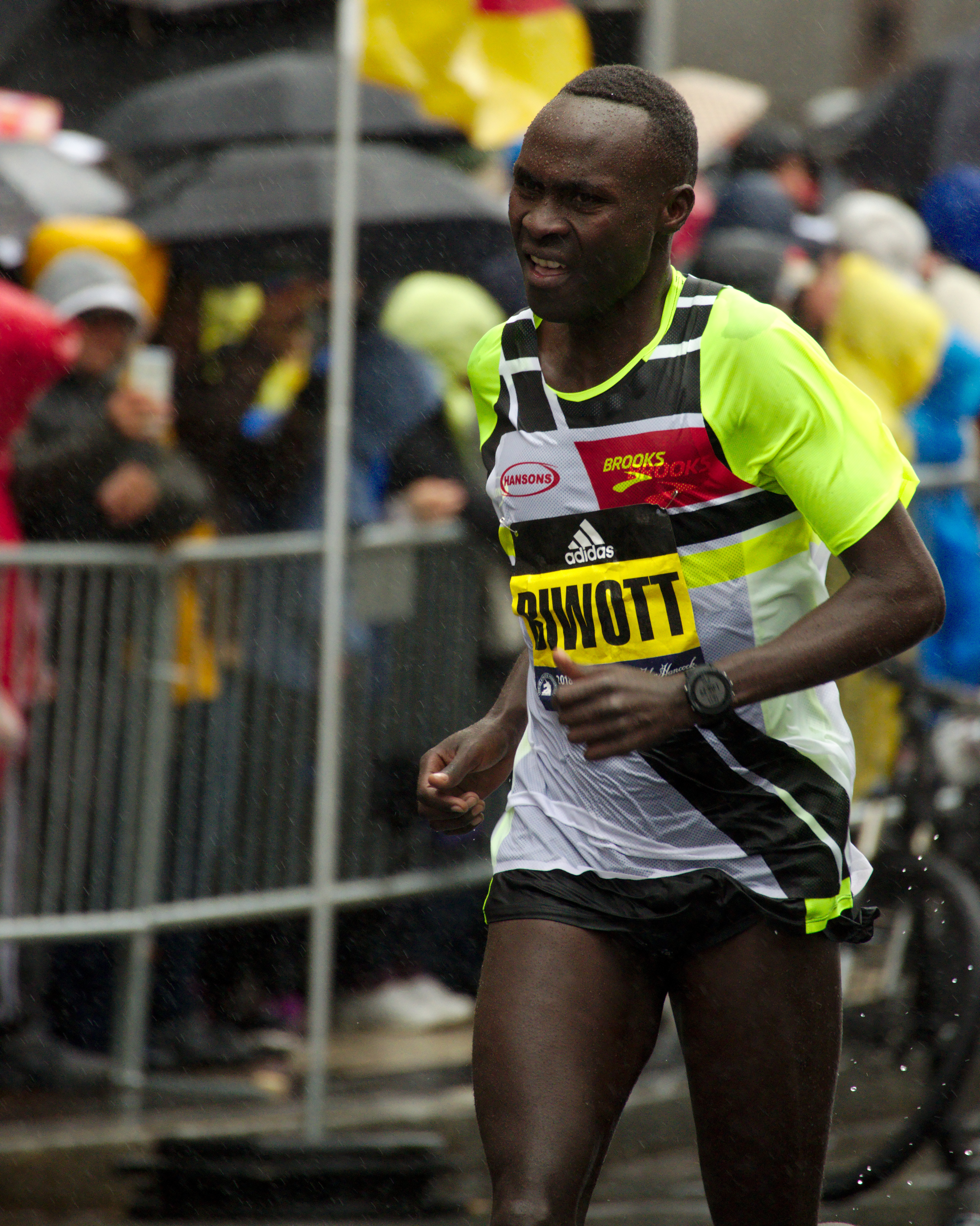 Shadrack Kiptoo Biwott at the 2018 Boston Marathon, on the final stretch of Boylston Street before the finish line.